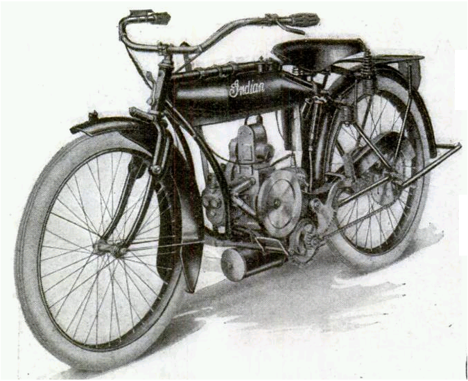 Picture of Indian Model O Light Twin motorcycle copied from Page 206 of April 1917 issue of Popular Mechanics magazine